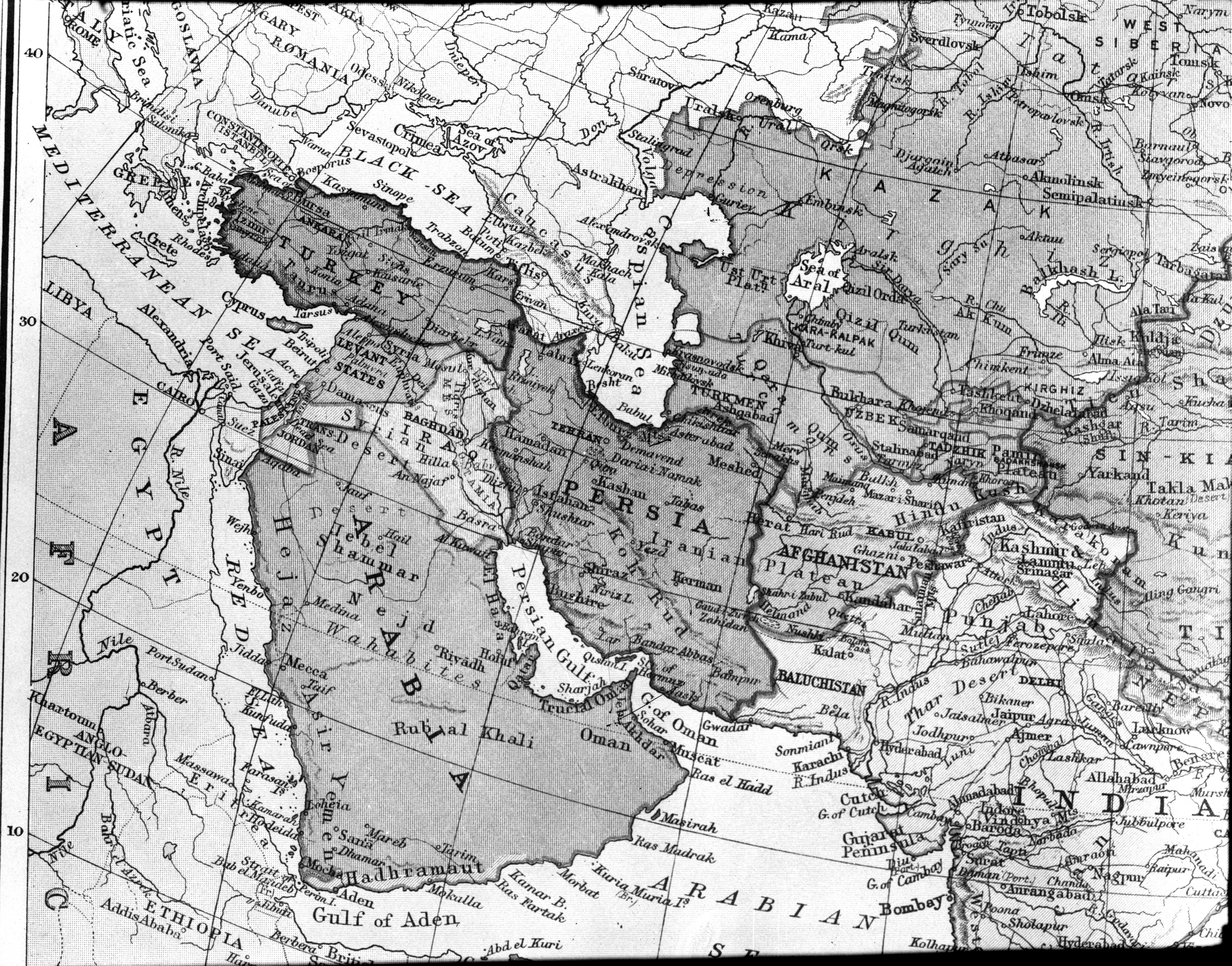 Map of the eastern Mediterranean to India, Gulf of Aden and Arabian Sea.